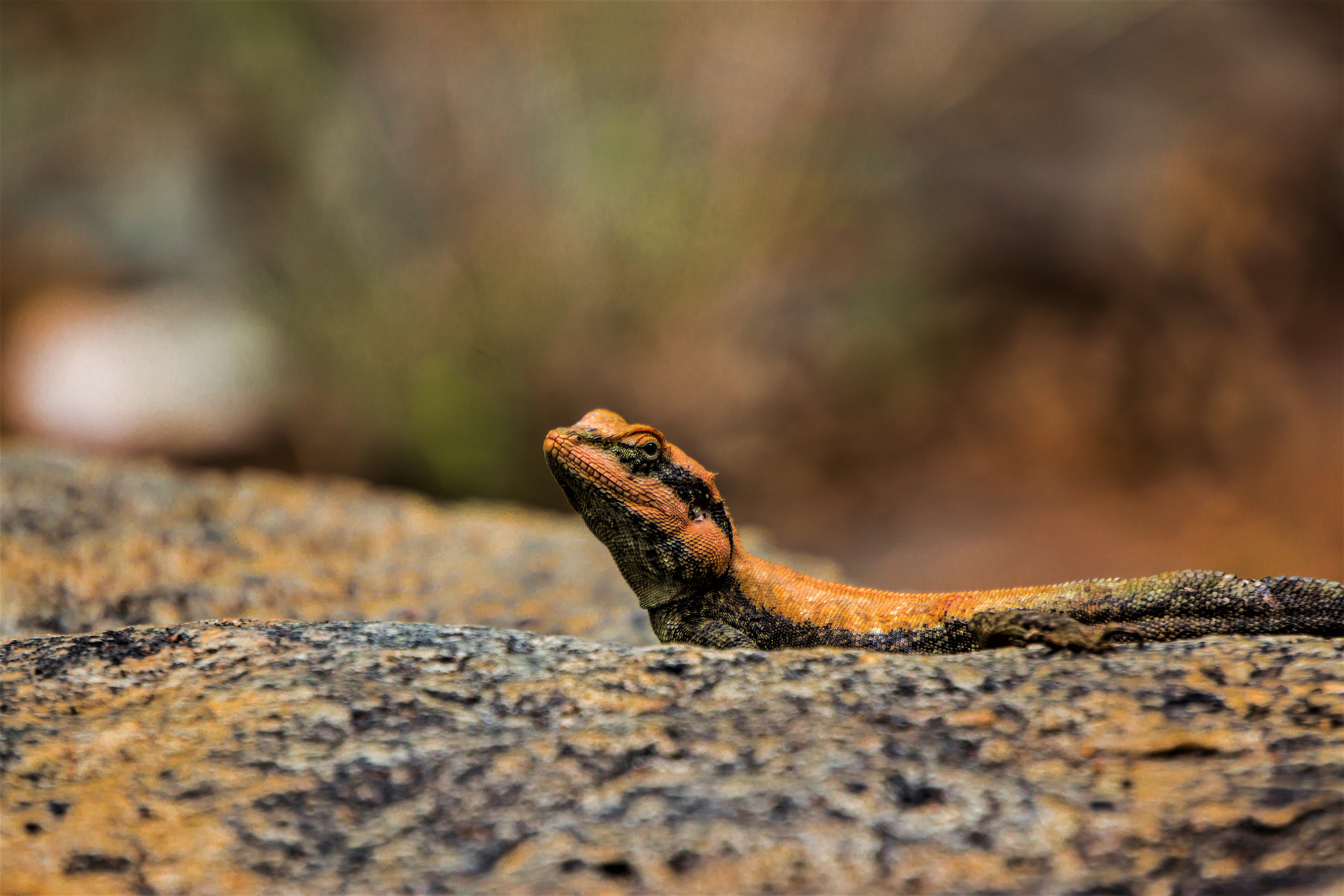 Captured at Mallela Theertham Water Falls, Mahbubnagar district, Telangana State, India